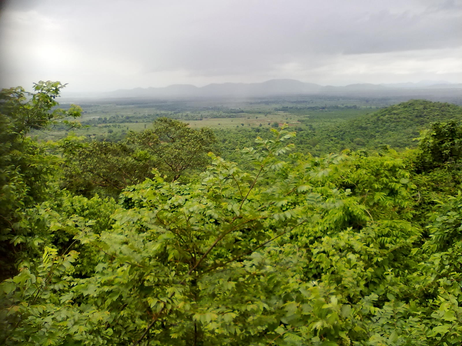 This media file is uploaded with Odia loves Wikipedia Dhabaleswara temple is located in Cuttack district of Odisha. This media file is uploaded with Odia loves Wikipedia